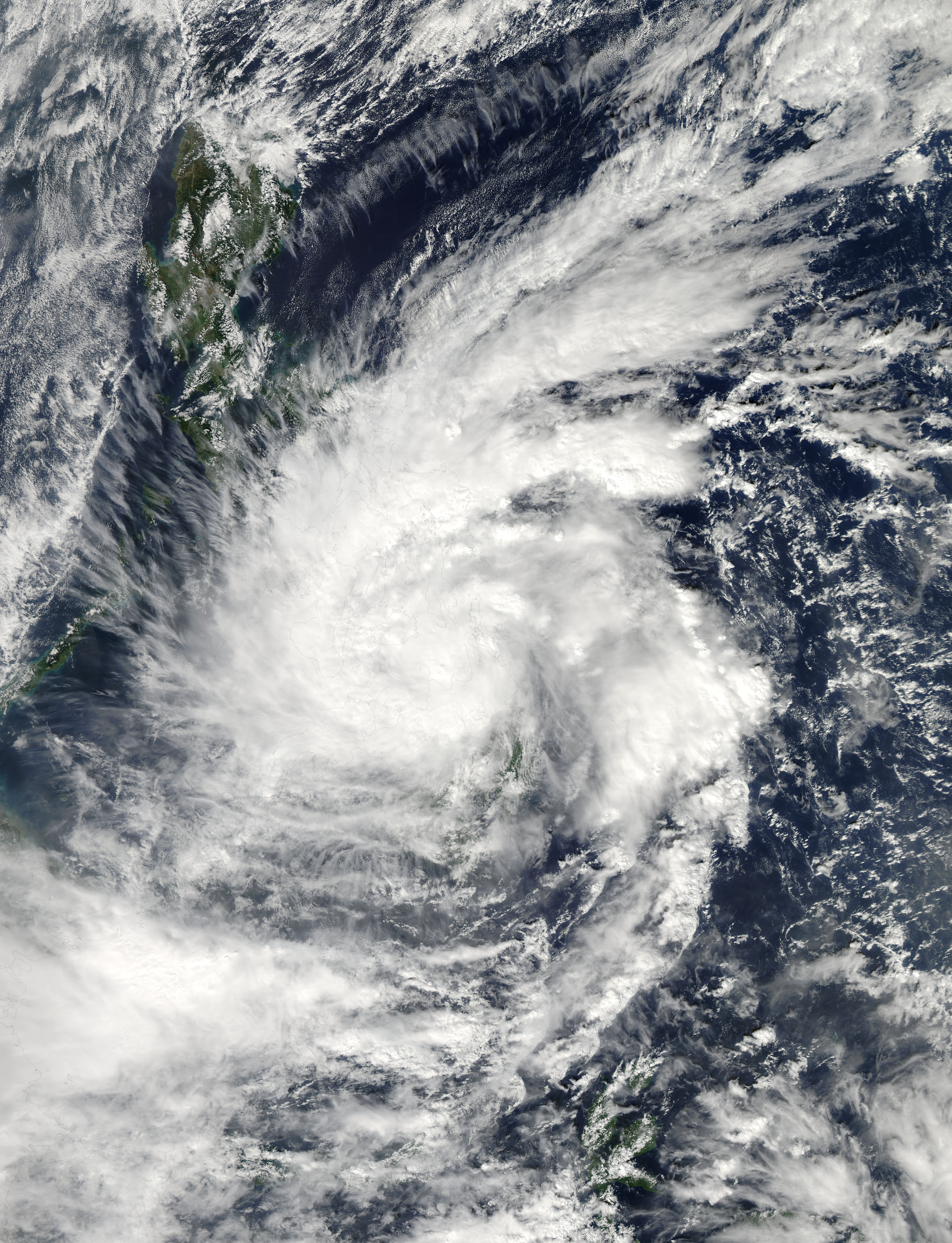 Tropical Storm Jangmi (23W, Seniang) over the Philippines on December 29, 2014.